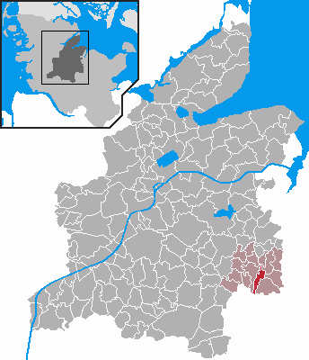 Locator maps of municipalities in Schleswig-Holstein - District Rendsburg-Eckernförde